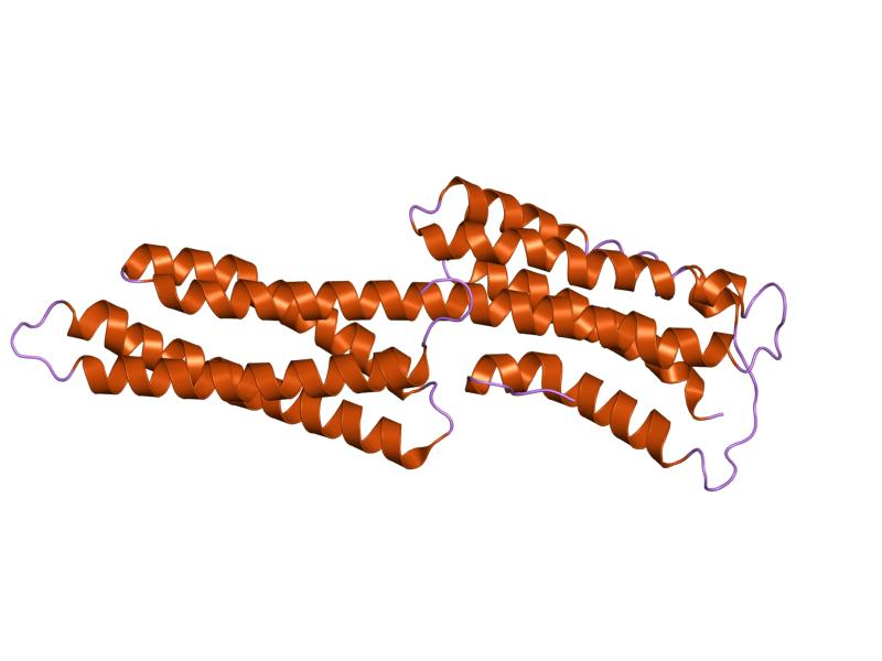 Cartoon representation of the molecular structure of protein registered with 1rkc code.